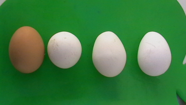 Egg abnormal forms and shell decoloration during probable Infectious Bronchitis outbreak in a parent flock (4) Walon: Candjmint del cogne des oûs et blankixhmint del schåfe a des poyes meres di poyons dandjreus rascråwêyes del brontchite å virûsse des poyes